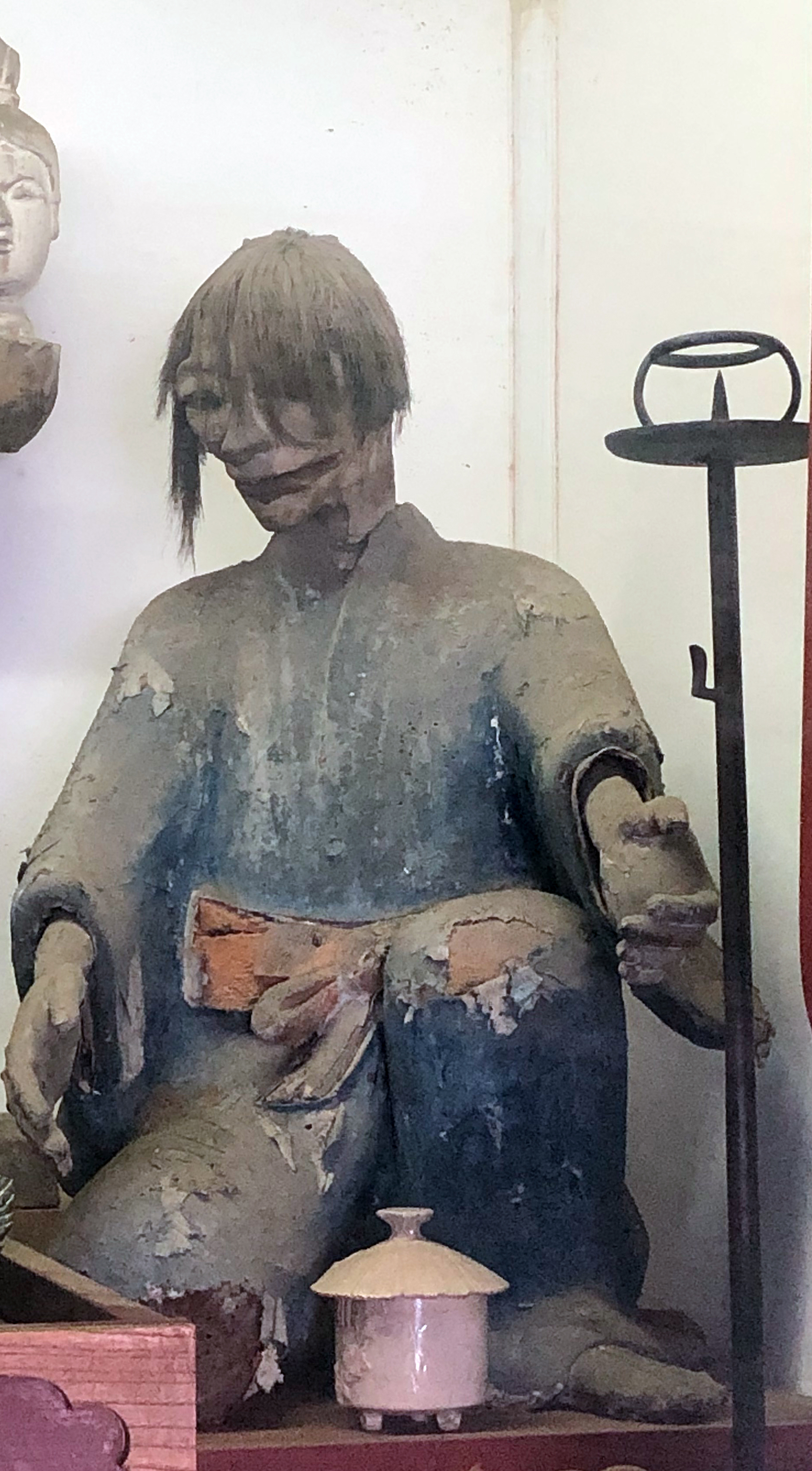 Datsueba in the Enryu-Temple (Enryū-ji) of Nakatsu (Oita Prefecture, Japan)